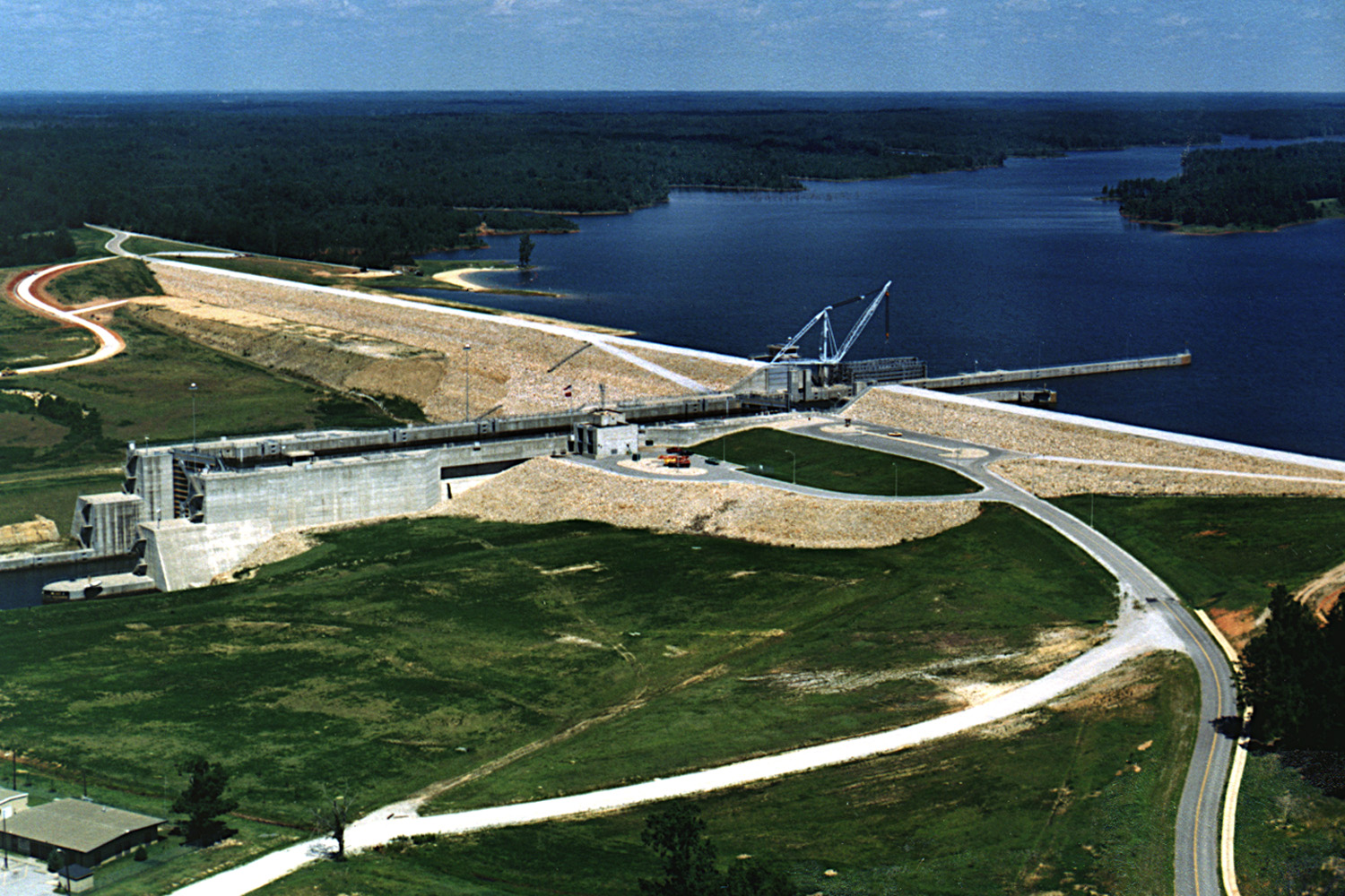 Aerial view of the Jamie Whitten Lock and Dam, formerly known as the Bay Springs Lock and Dam, on the Tennessee-Tombigbee Waterway in Tishomingo County, Mississippi, USA. The dam impounds Bay Springs Lake. Coordinates: 34°31′22.48″N 88°19′25.03″W / 34.5229111°N 88.3236194°W